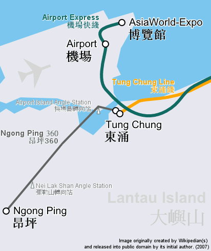 Route map focusing on Hong Kong cable car Ngong Ping 360 and the nearby railway system, in geographically accurate scale.